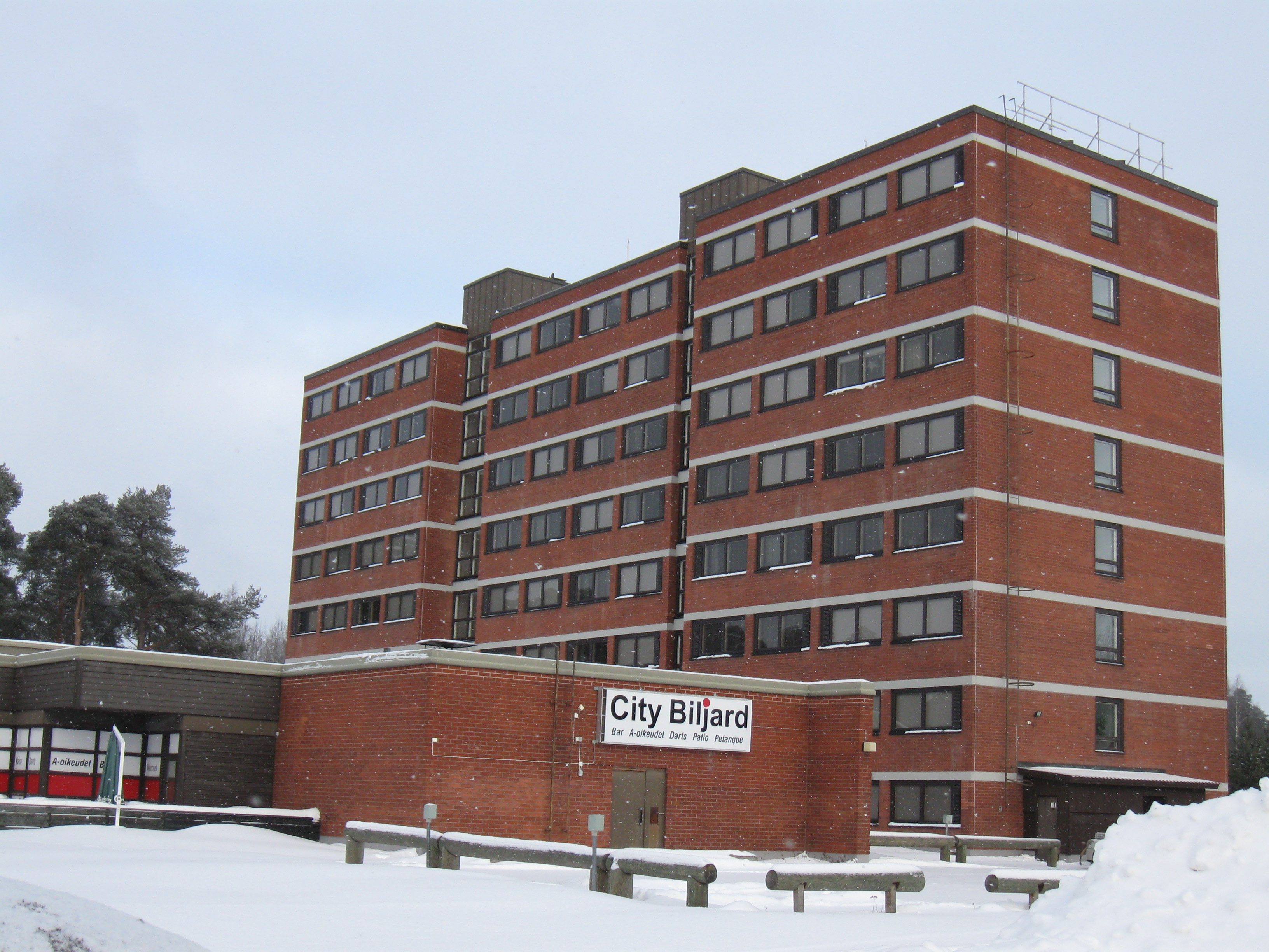 The student housing area "Välkkylä" in Oulu, Finland.